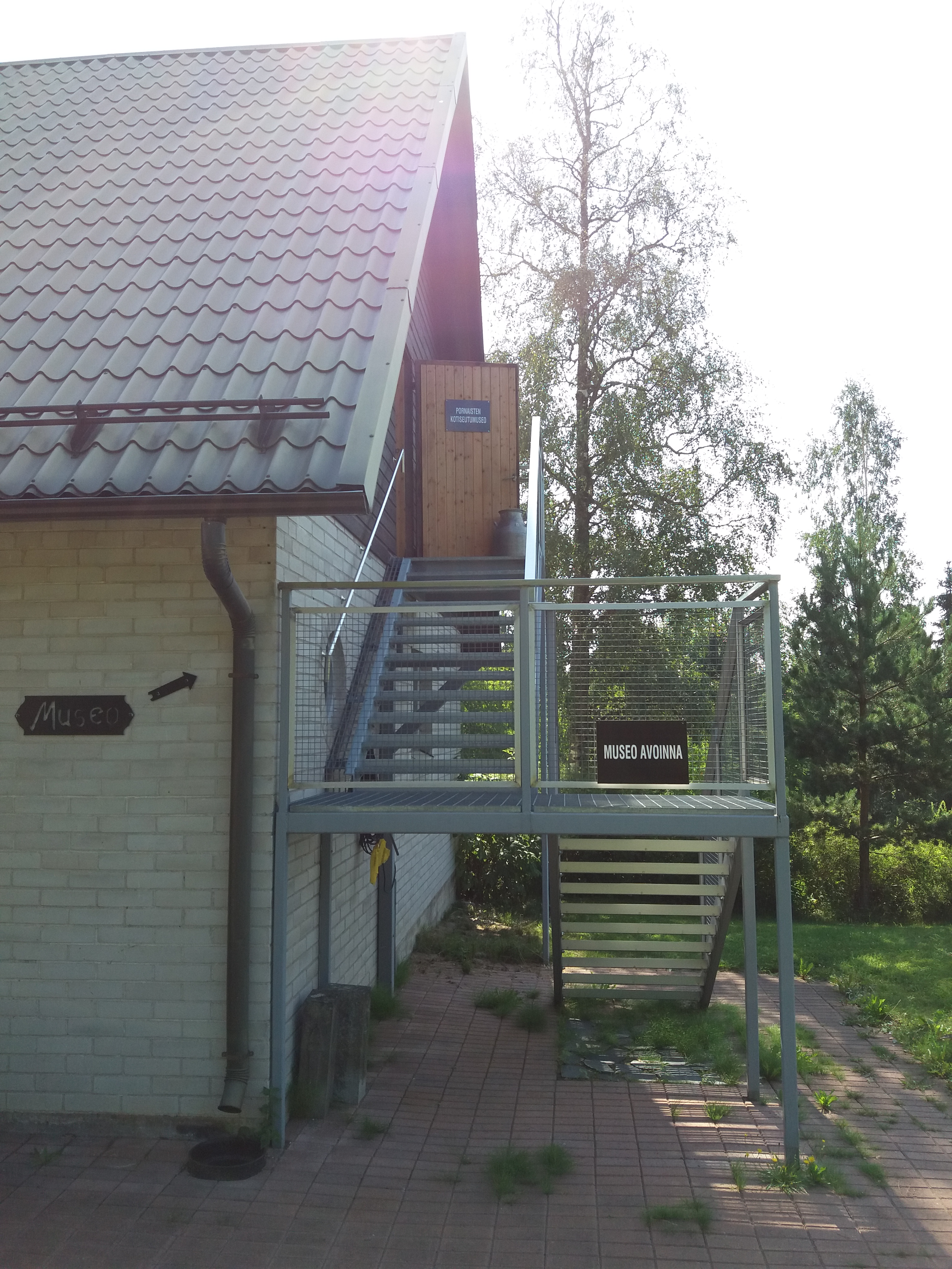 Pornainen Museum entry